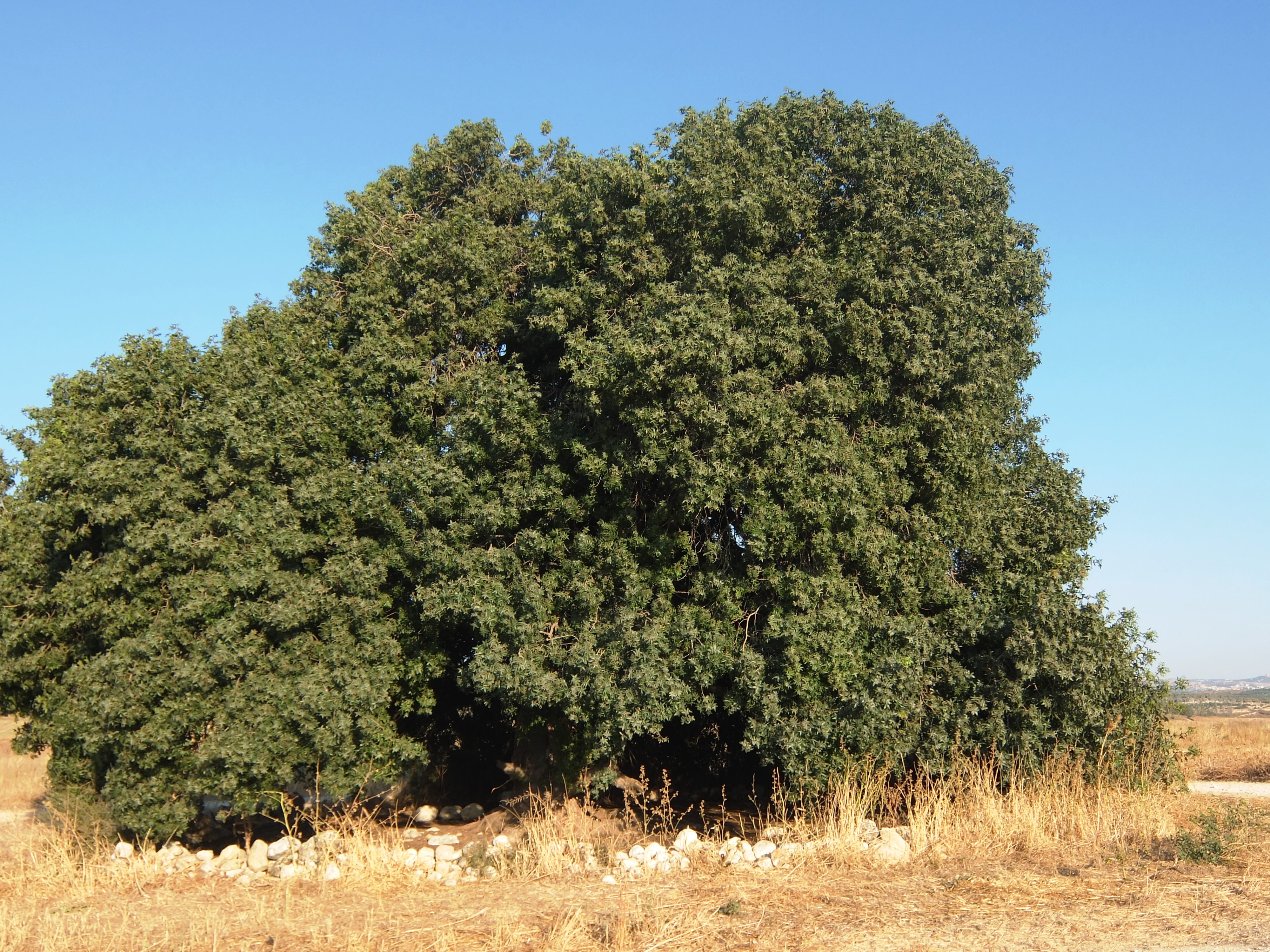 A large mastic tree growing in the Elah Valley